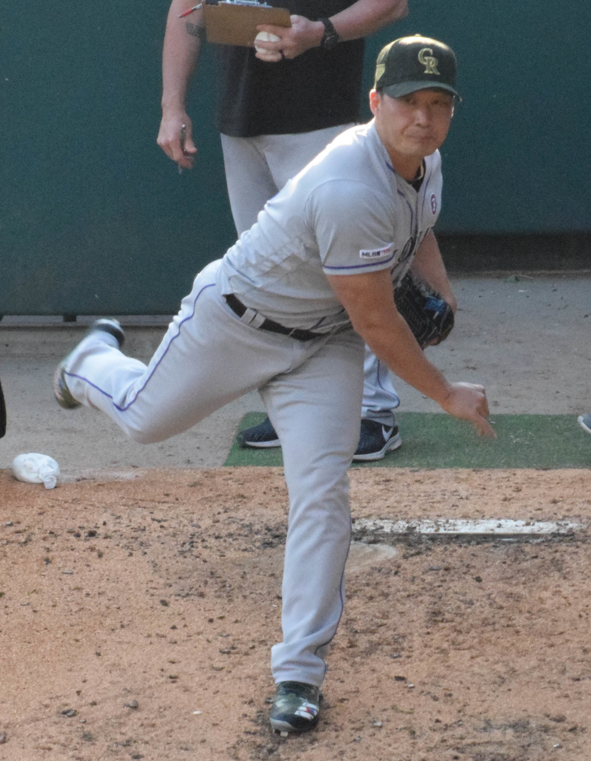 Seung-hwan Oh of the Colorado Rockies warms up in the bullpen at Citizens Bank Park during a 2019 game in Philadelphia.